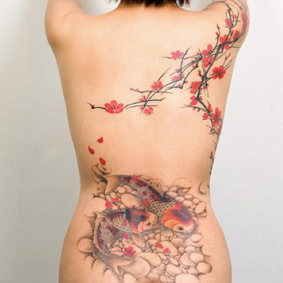 Freehand cherry blossoms and koi fish. Design and tattoo by Joey Pang